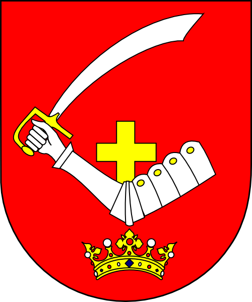 Coat of arms (shield only) of Bl. Vilmos Apor, bishop of Győr, Hungary (1941 - 1945). Alternative based on this